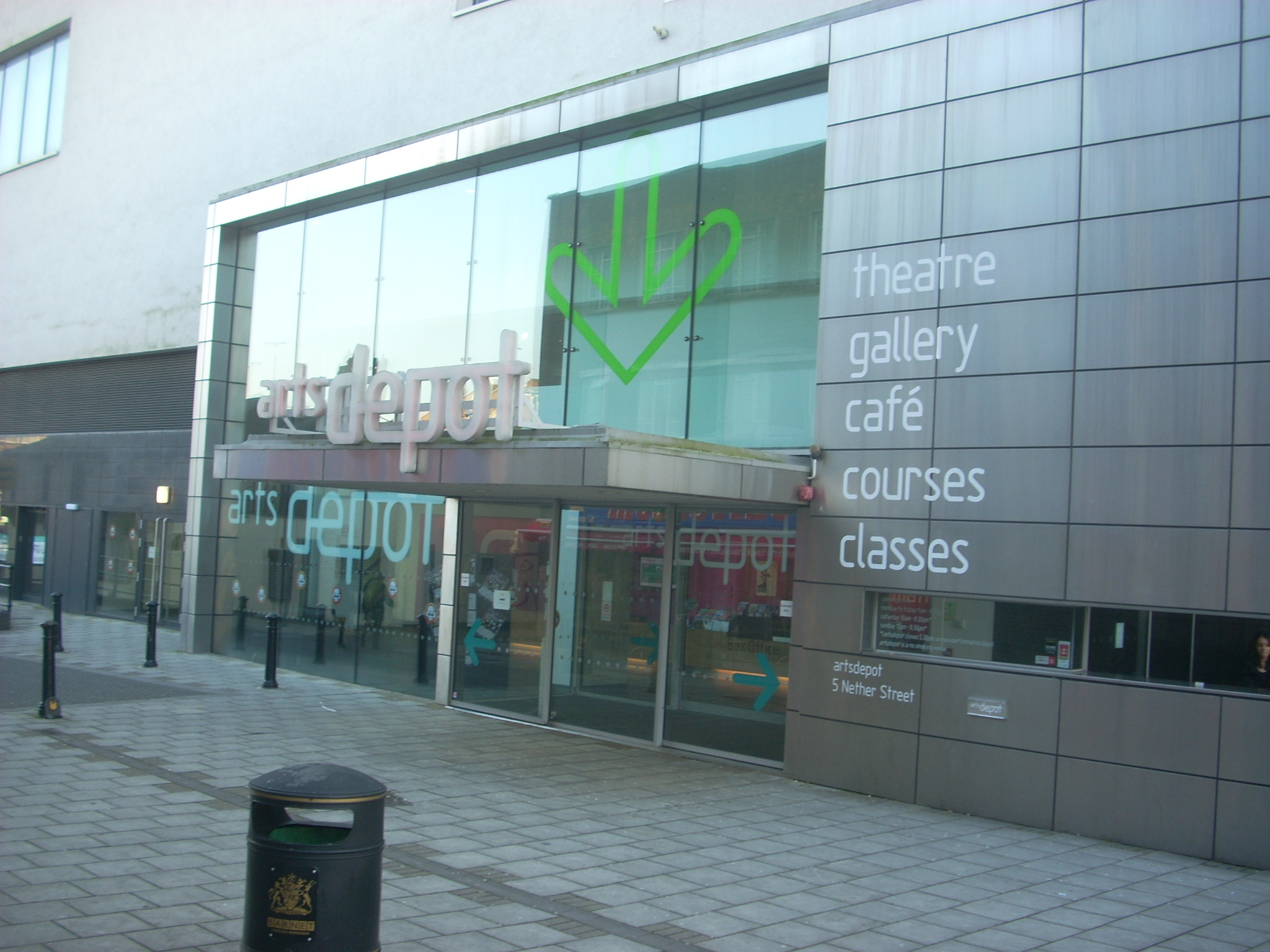 The Artsdepot, Nether street, Tally ho, North Finchley, LB Barnet, London, Gallery, Theatre